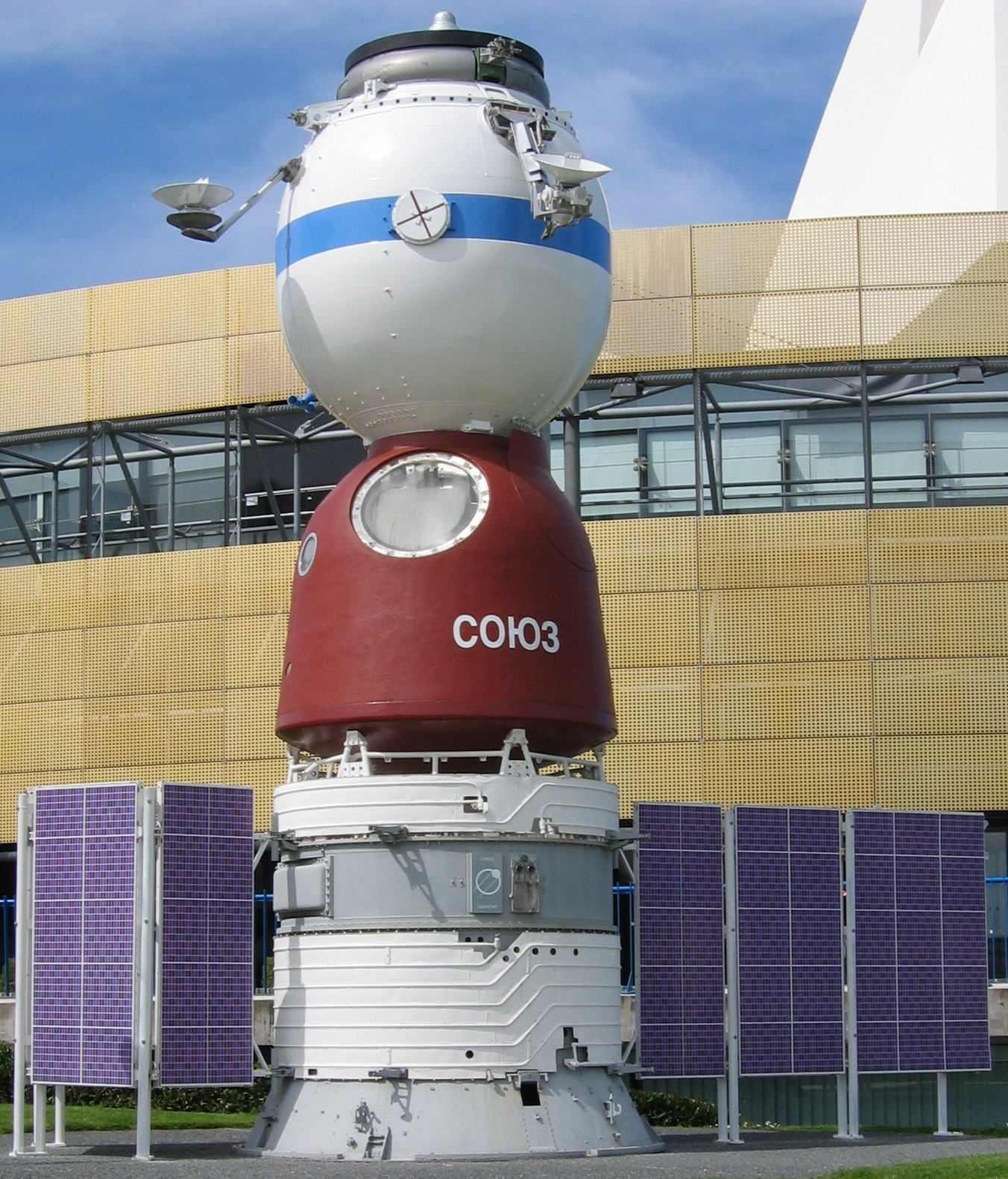 Soyuz spacecraft mock-up (real size) from Cité de l'Espace in Toulouse